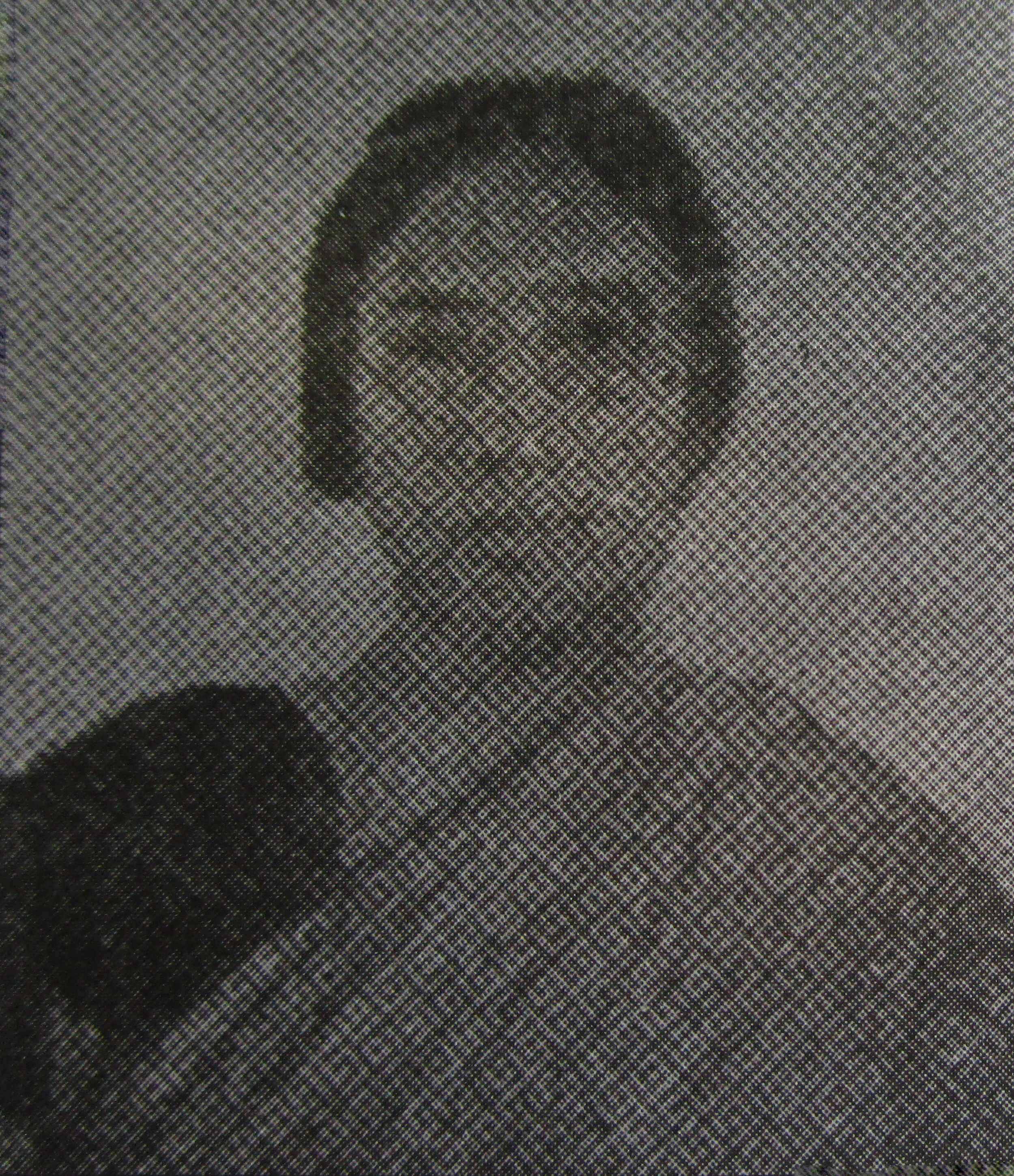 Renu Sen